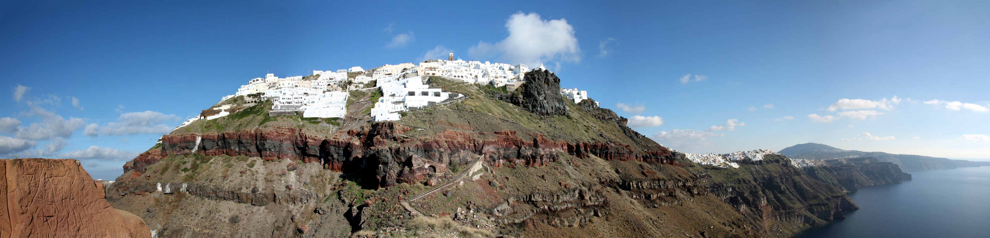 Panoramic view of Imerovigli from the ruins on Skaros rock. Santorini Panoramic View of Imerovigli